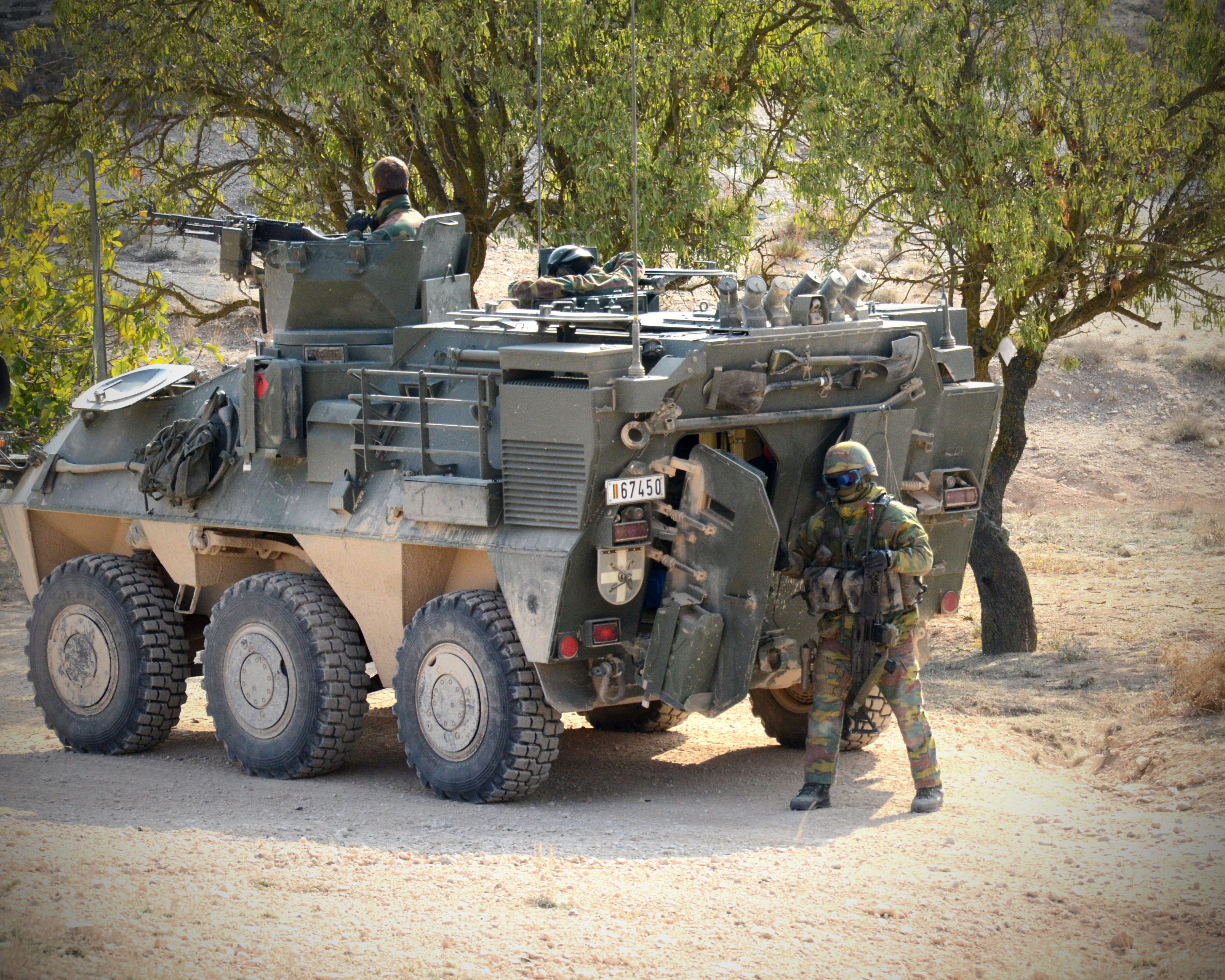 A Belgian Pandur 6x6 APC in San Gregorio during Trident Juncture 2015 NATO photo by Karl Schoen